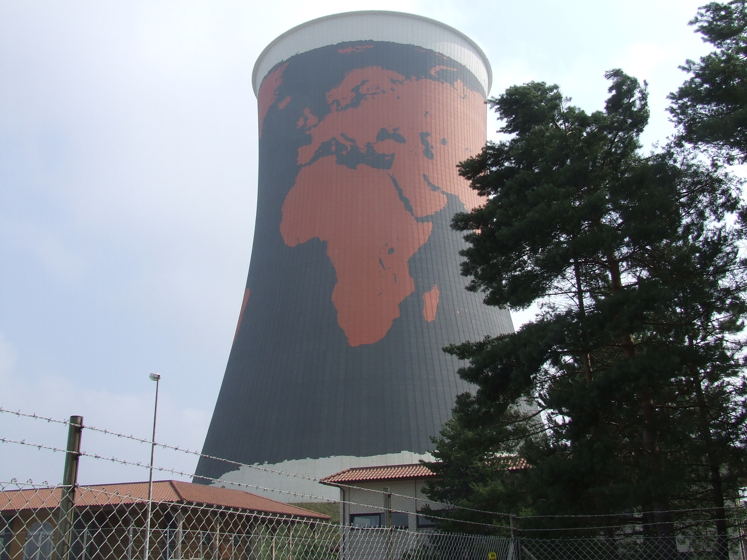 Cooling Tower of the Power Plant near Meppen